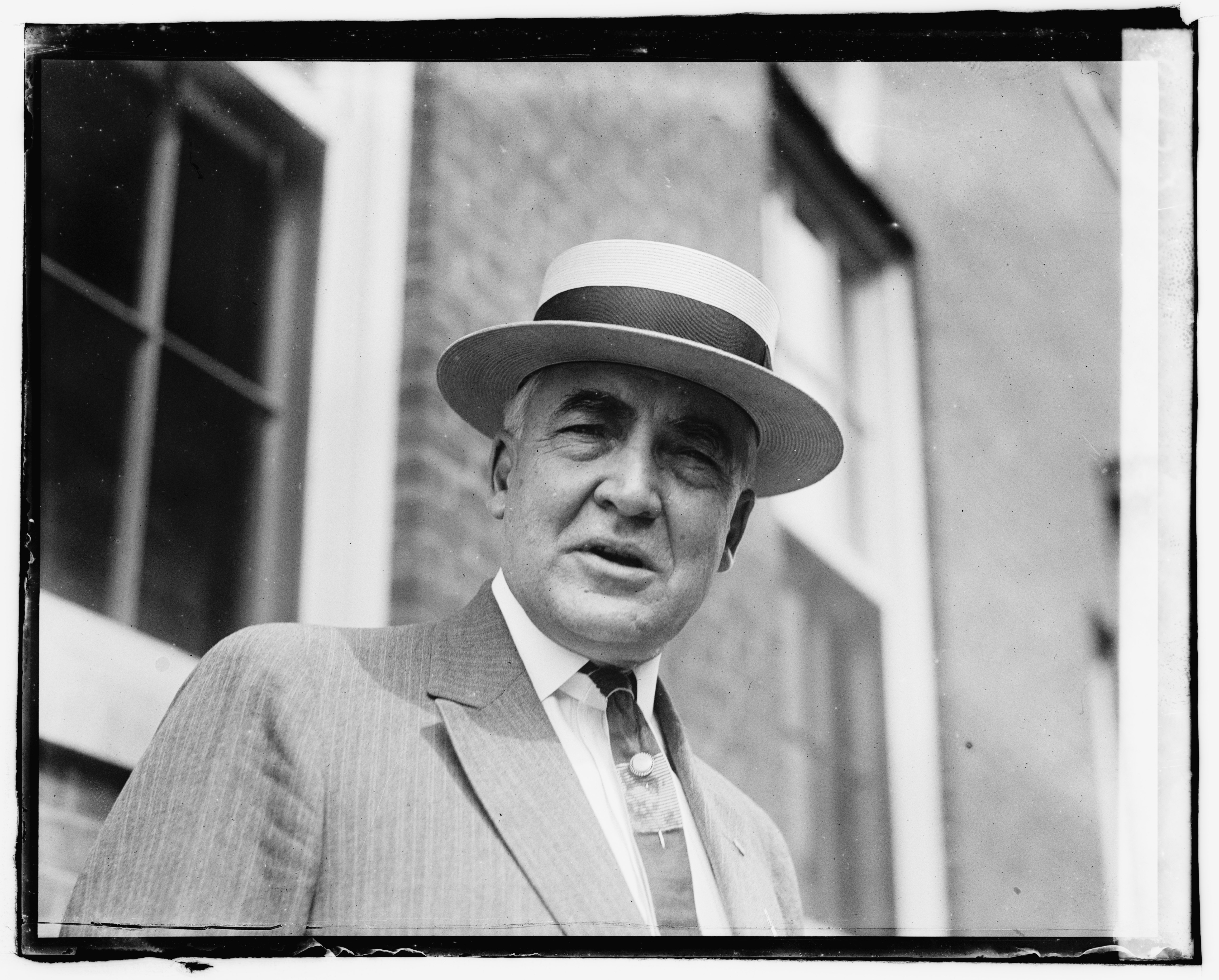 Title: Warren G. Harding Abstract/medium: 1 negative : glass ; 4 x 5 in. or smaller